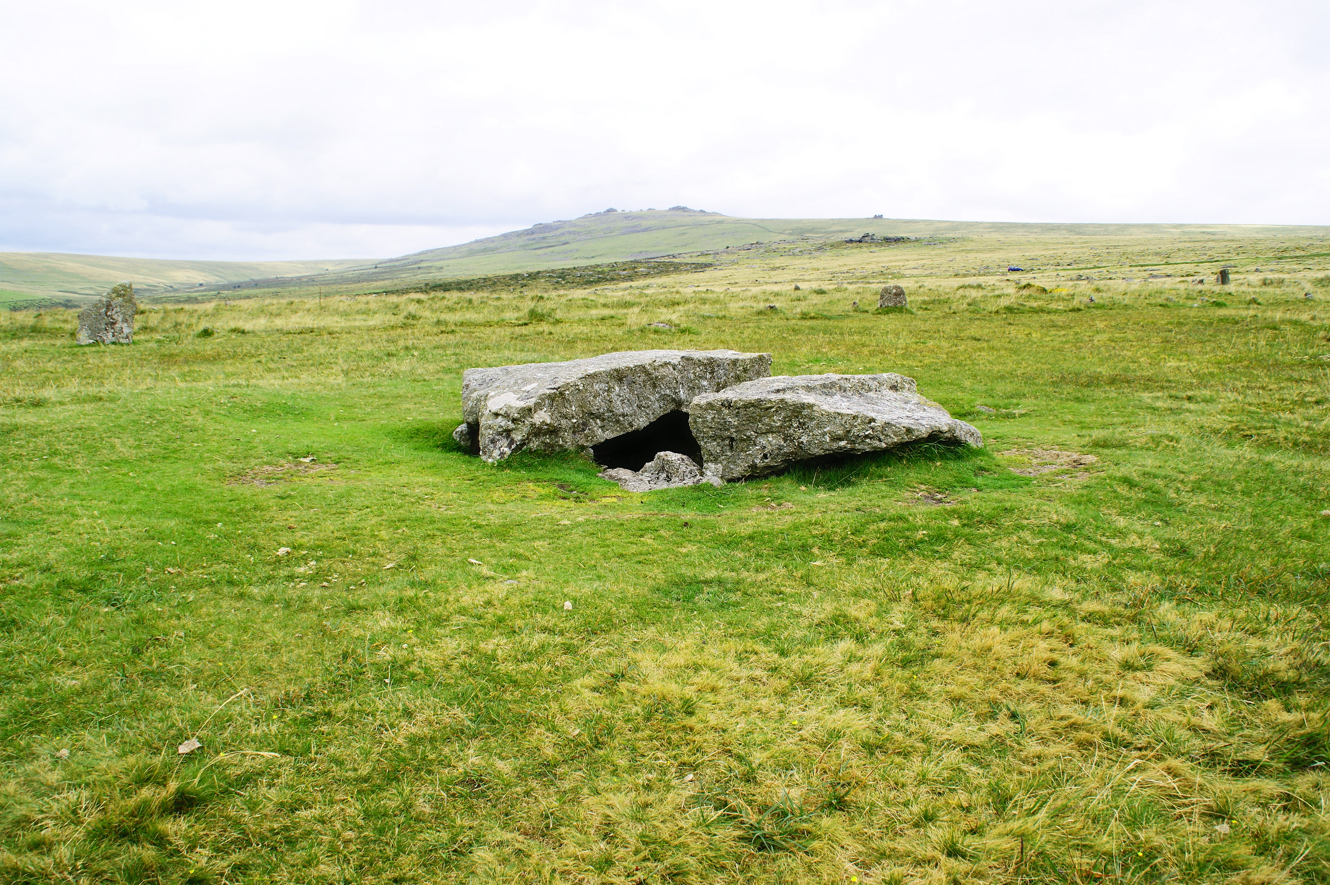 Merrivale Kistvaen. This is offset from the stone rows (south of them) but is in good condition despite the capstone having been cut for stone to use elsewhere. In the background are Great Mis & Little Mis Tors.